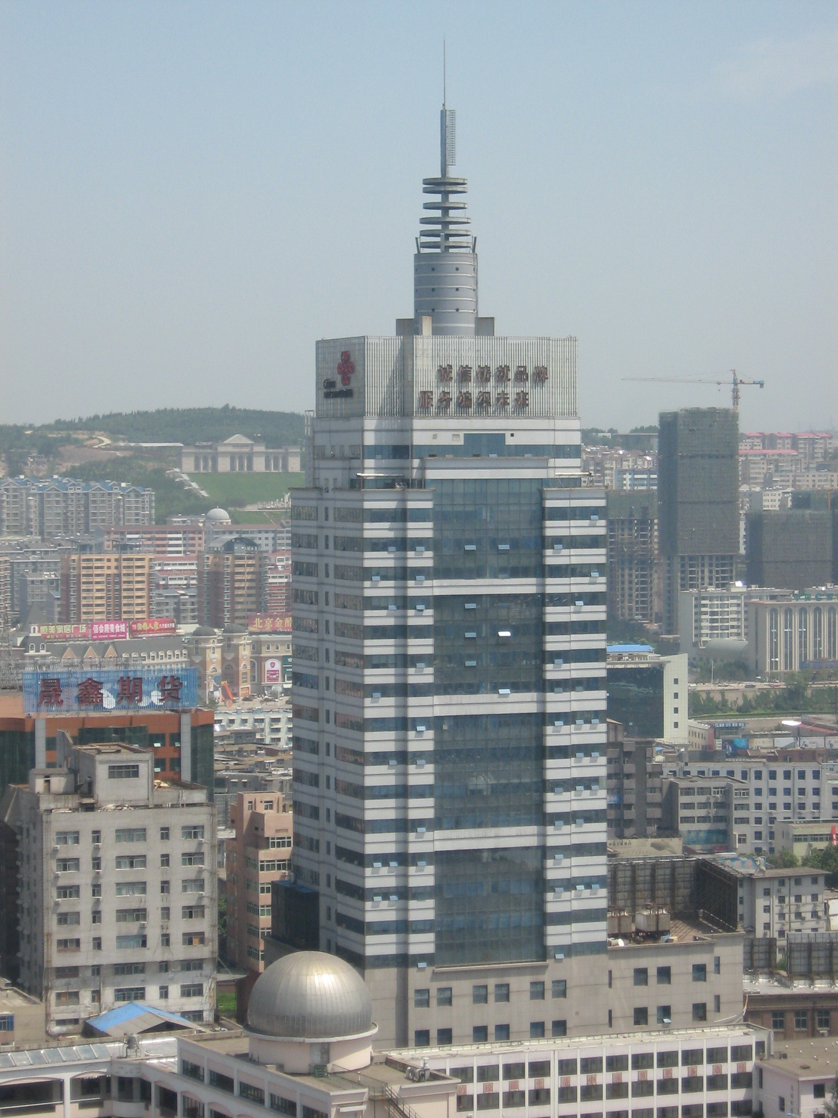 yangquan,shanxi,阳泉，山西